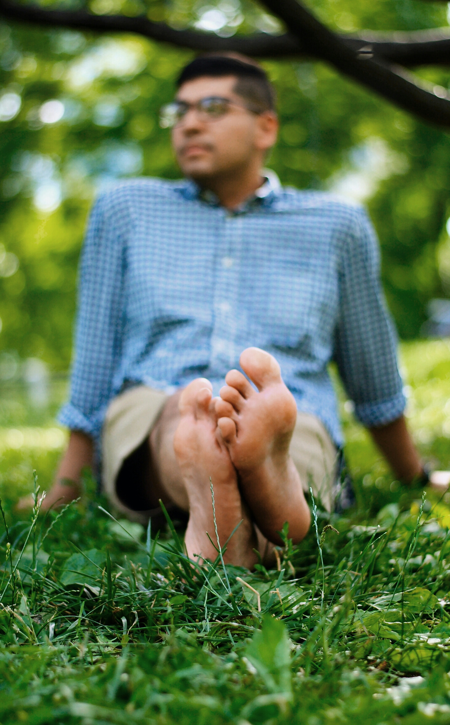 A person's feet in the grass in Central Park.